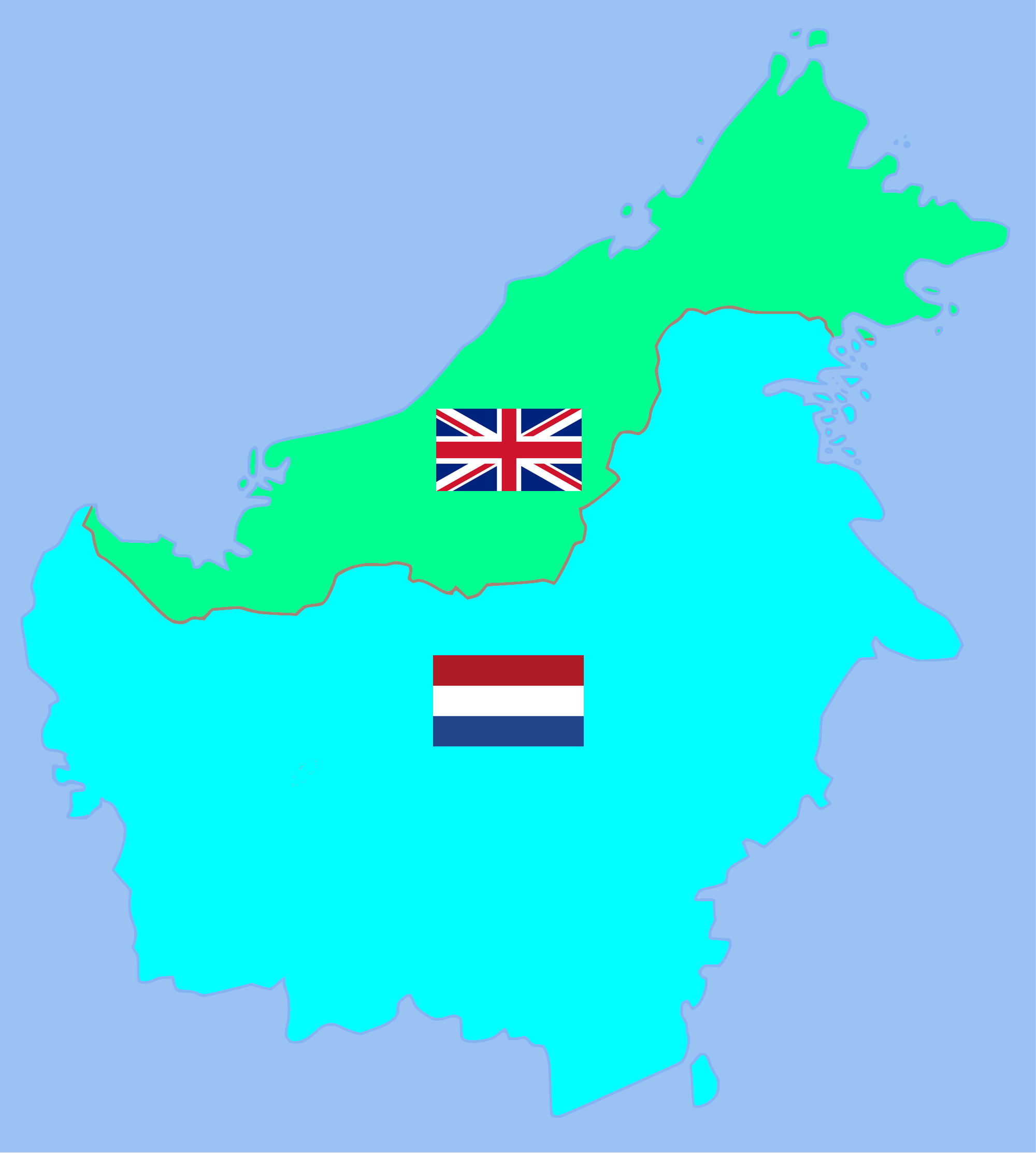 Own work, map referred from File:Barbourula kalimantanensis on Borneo.svg Legend: British Borneo. Dutch Borneo.